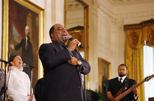 Kurt Carr and the Kurt Carr Singers perform for President George W. Bush and guests Tuesday, June 17, 2008 in the East Room of the White House, in honor of Black Music Month.